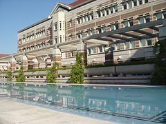 Thomas and Dorothy Leavey Library — USC undergraduate library, on the campus in Los Angeles. Designed in the Romanesque Revival style, and completed in the mid-1990s. Credits I took this picture myself on the USC Campus. Please observe license and properly cite in use outside Wikipedia.